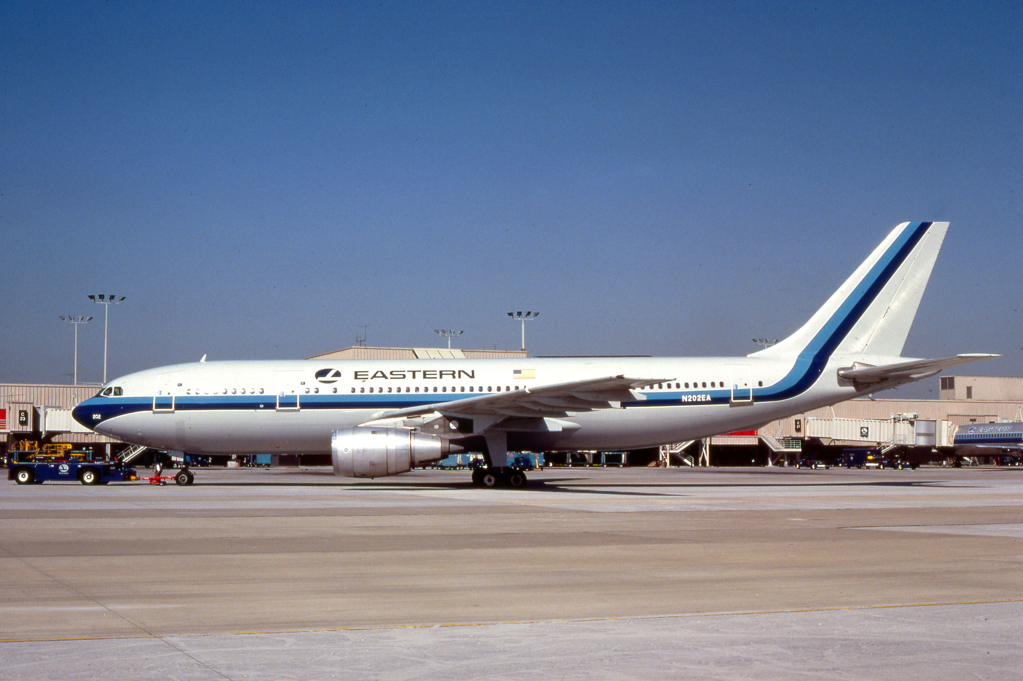 Eastern Airlines Airbus A300 (N202EA) at Miami International Airport